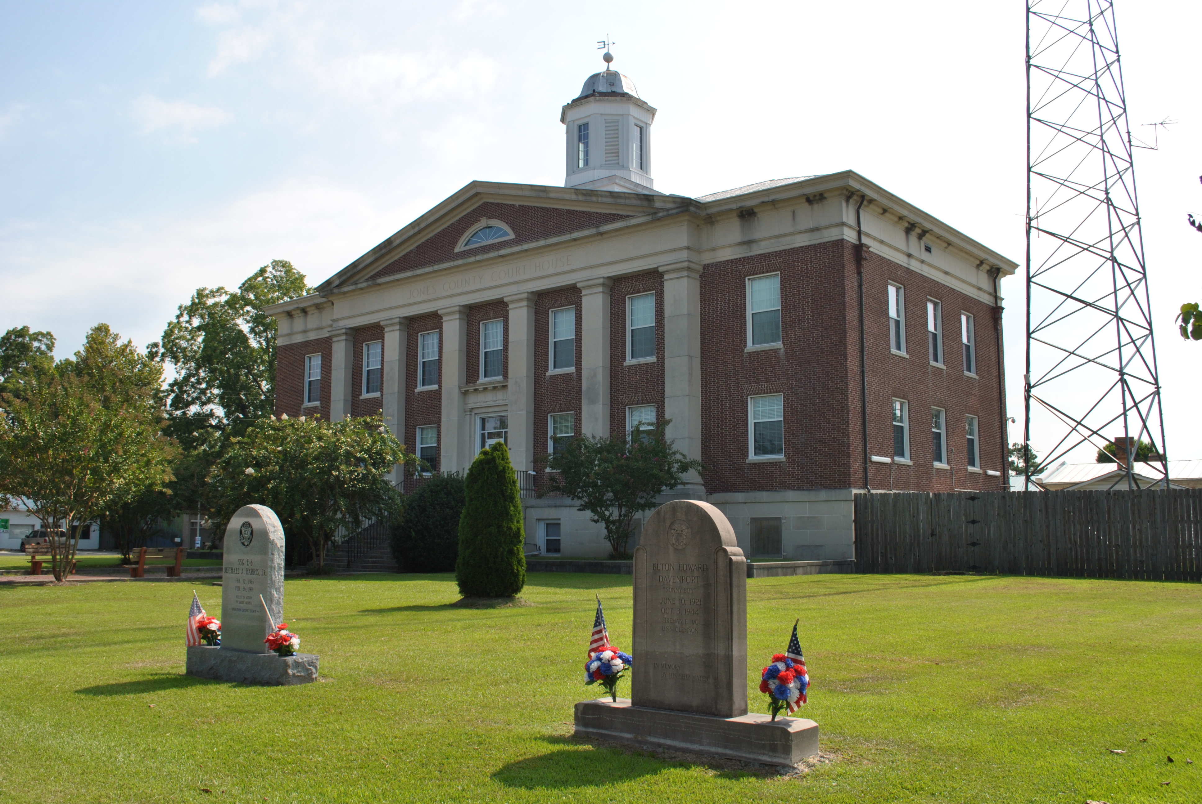 Jones County Courthouse Built by the WPA in 1939 August 2016